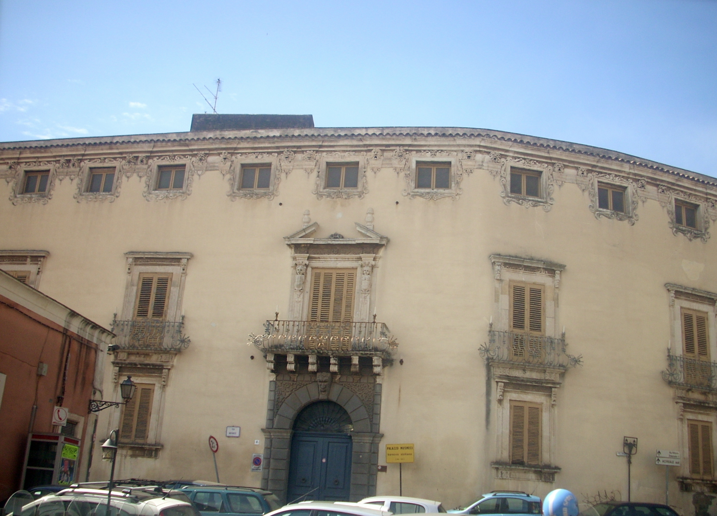 18th century Musmeci Palace, Piazza San Domenico, Acireale, Sicily